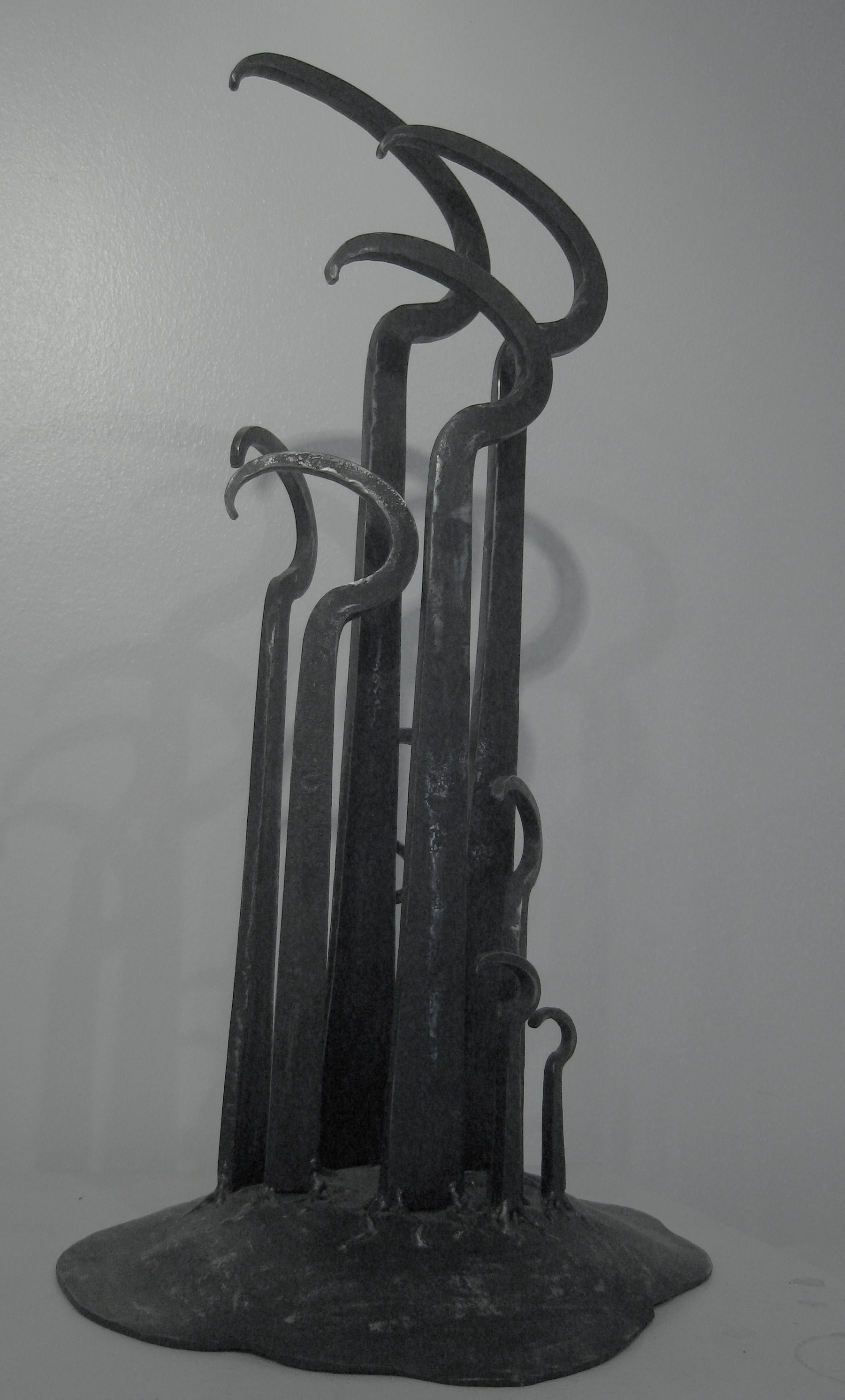 Forging Art from Vira bruk, Österåker Municipality, Sweden